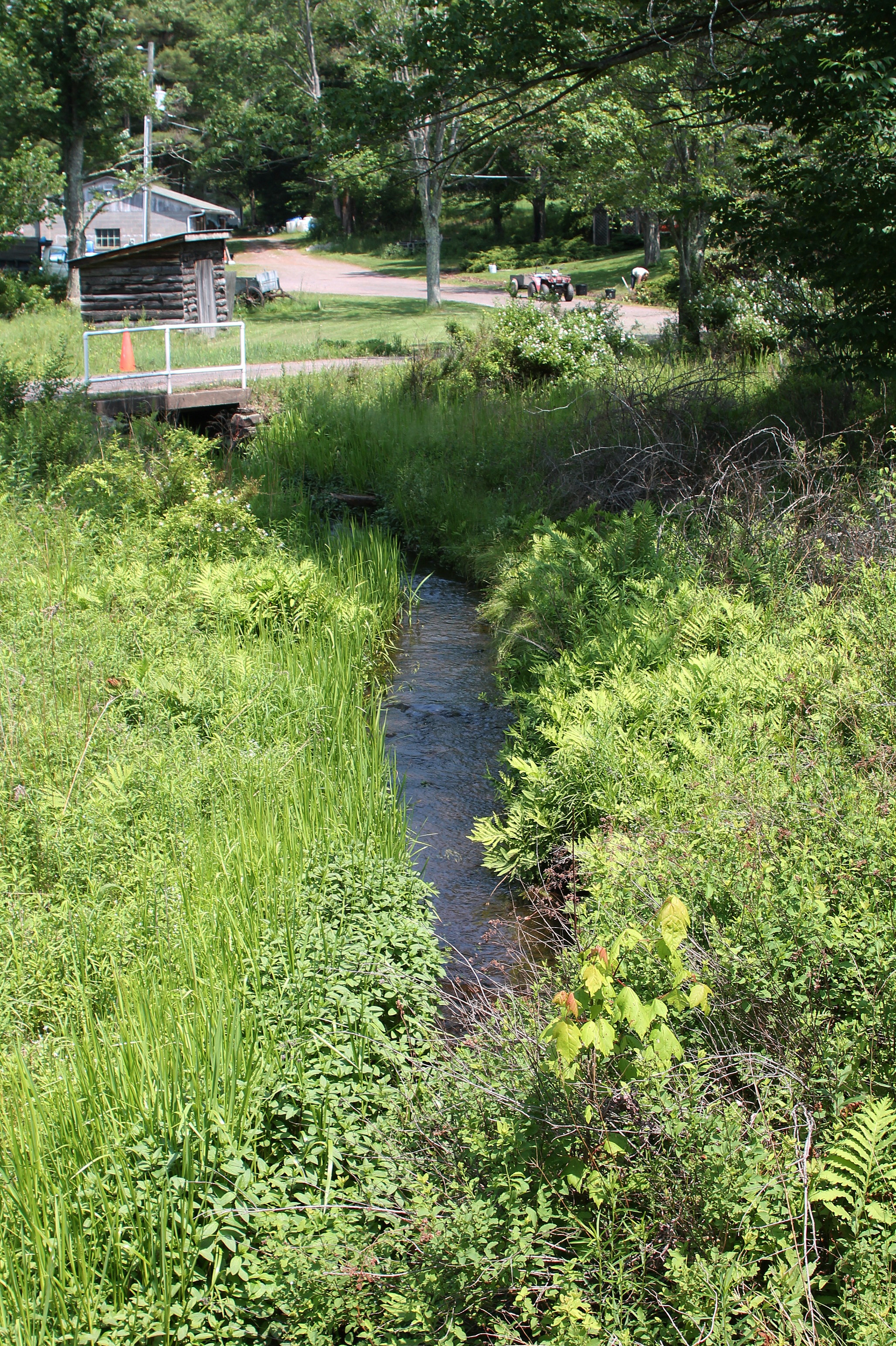 Paint Spring Run looking upstream from Outlet-Loyalville Road